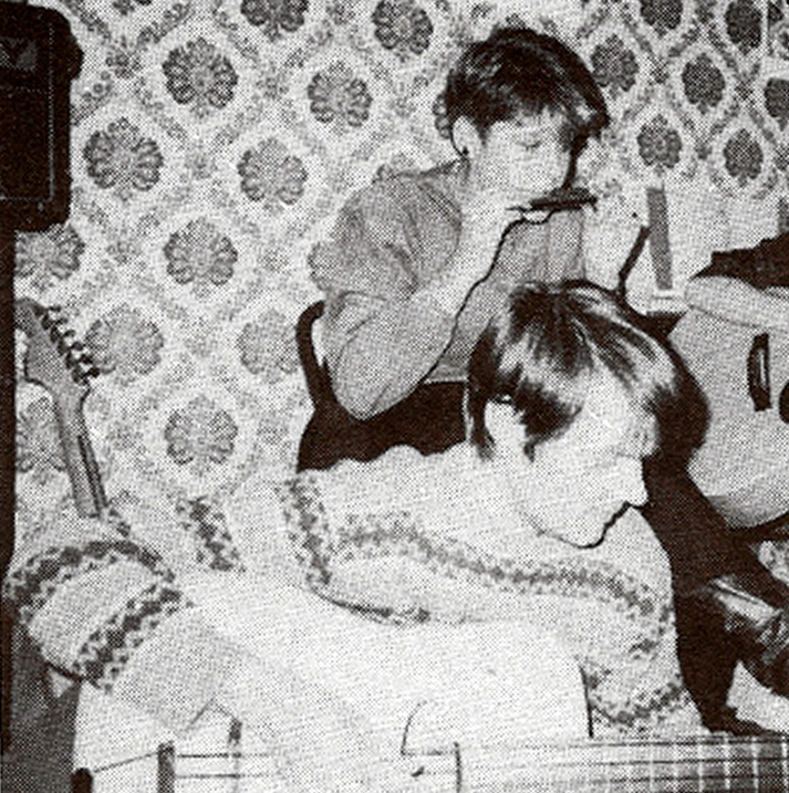 Trixie's Big Red Motorbike rehearsing in studio, 1983